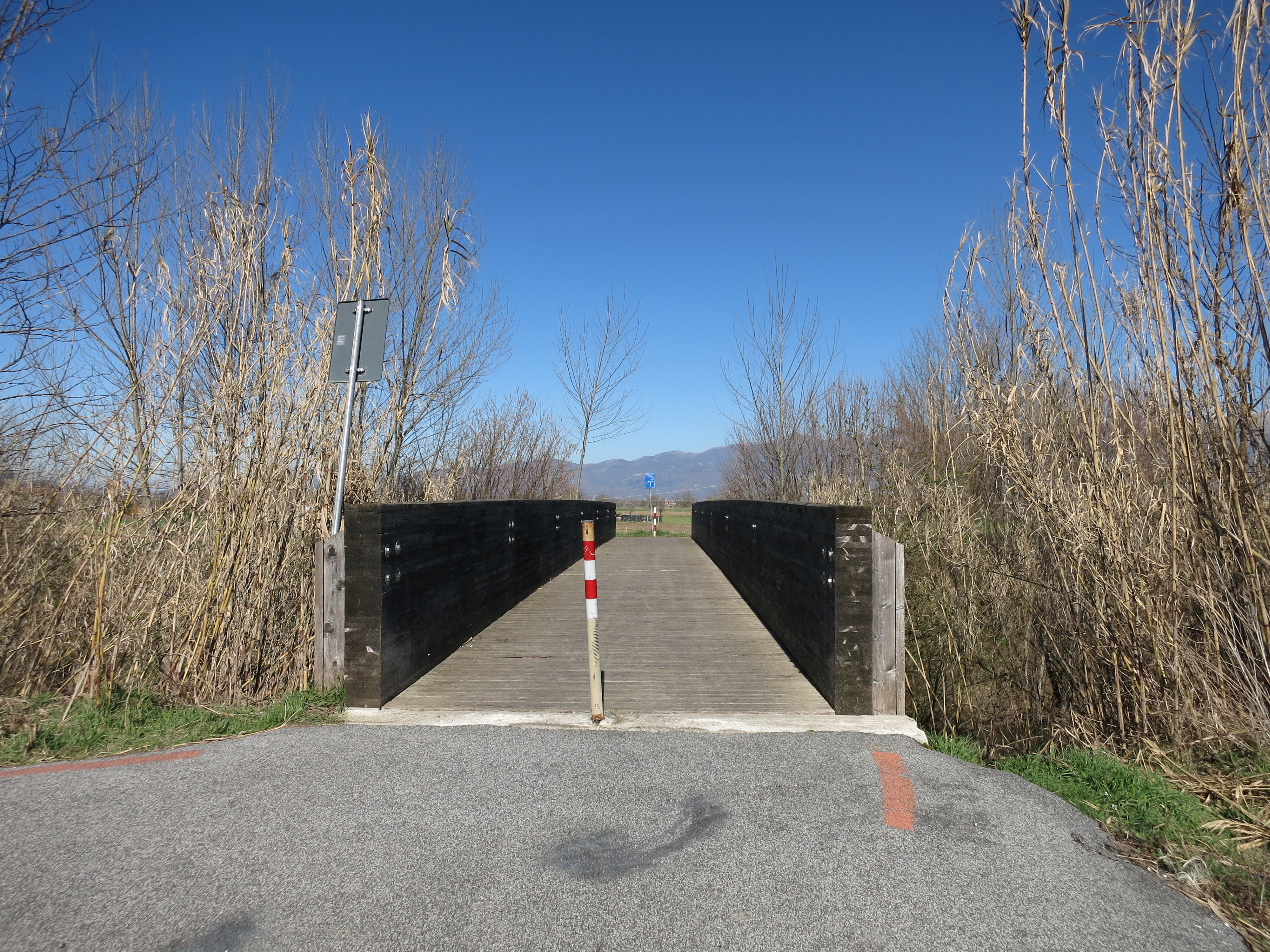 Ciclovia della Conca Reatina, bikeway in the province of Rieti (Lazio, Italy)